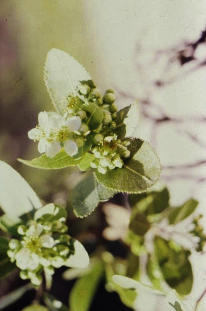 Kageneckia oblonga, tree of Chilean Matorral